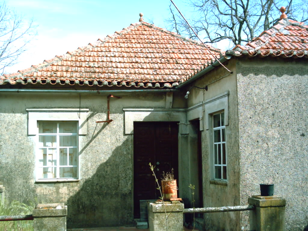 Old house at Pega, Guarda, Portugal.